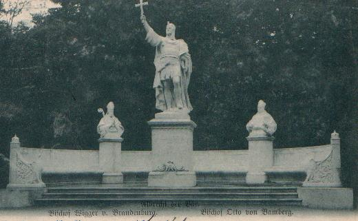 Siegesallee: the memorial for Albert I of Brandenburg with Bishop Wigger of Brandenburg on the left and Bishop Otto of Bamberg on the right.